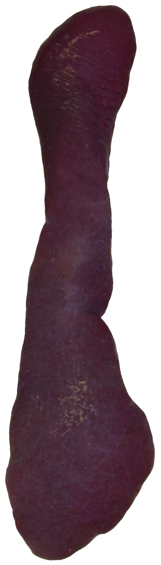 spleen of a cat self-made photograph --Uwe Gille 23:23, 20 March 2006 (UTC)